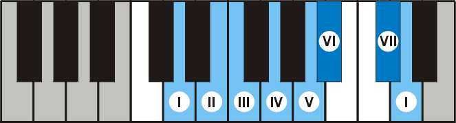 Piano D nature harmony minor scale.